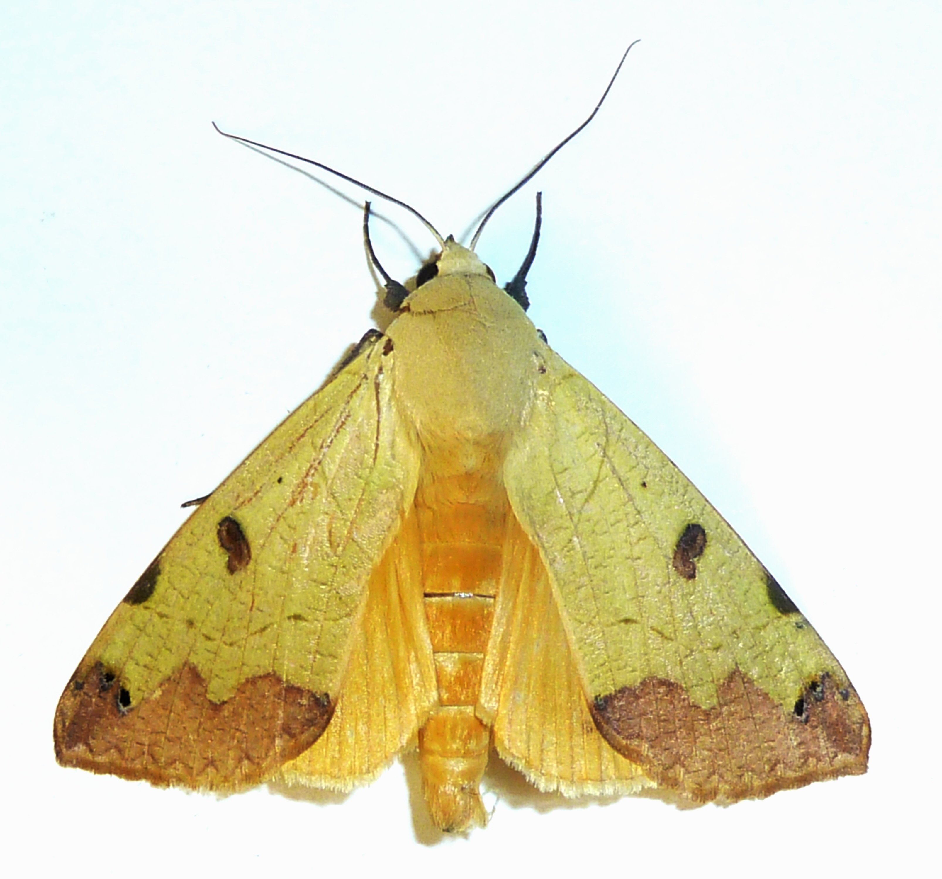 A female Green drab collected in suburban Pretoria, South Africa